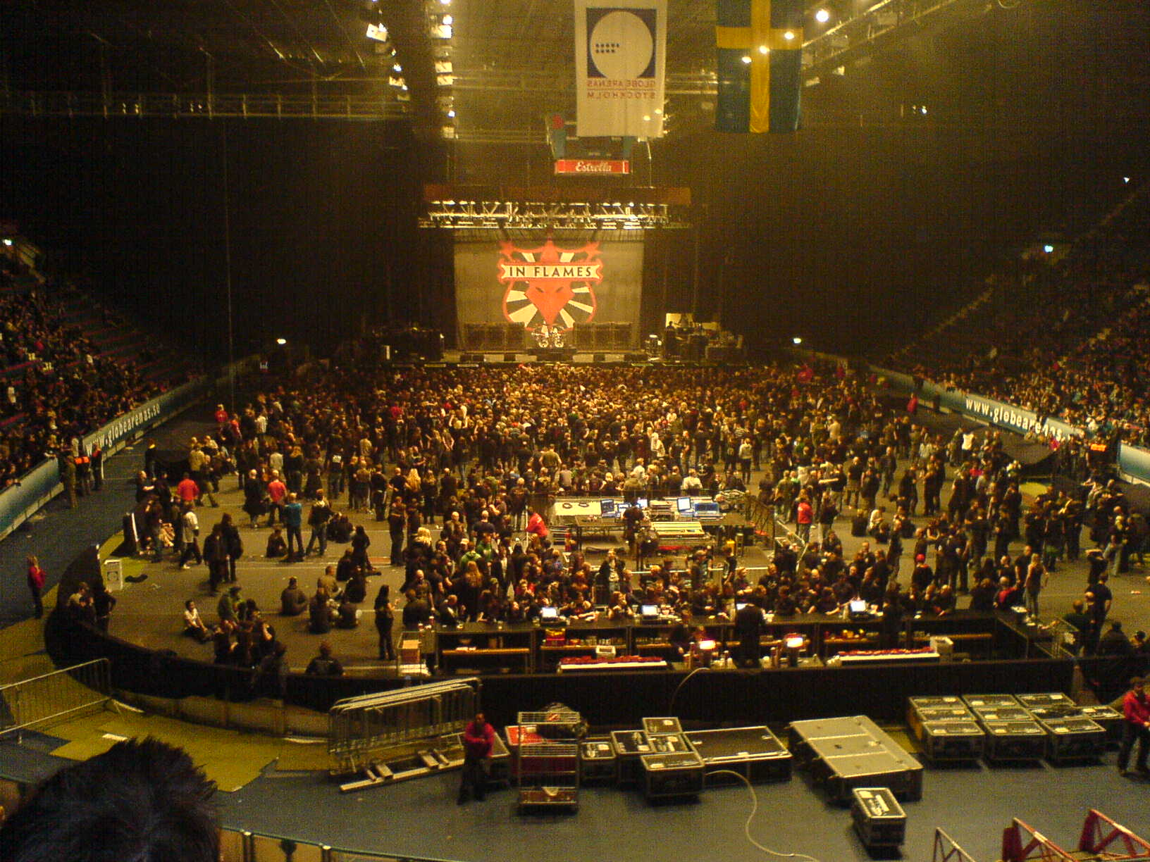 Waitng for the metal band In Flames to play at Hovet, Stockholm, Sweden